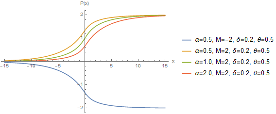 Hyperbolastic Type I with positive theta values.